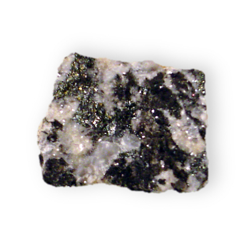 These mineral images are free to use how you wish.